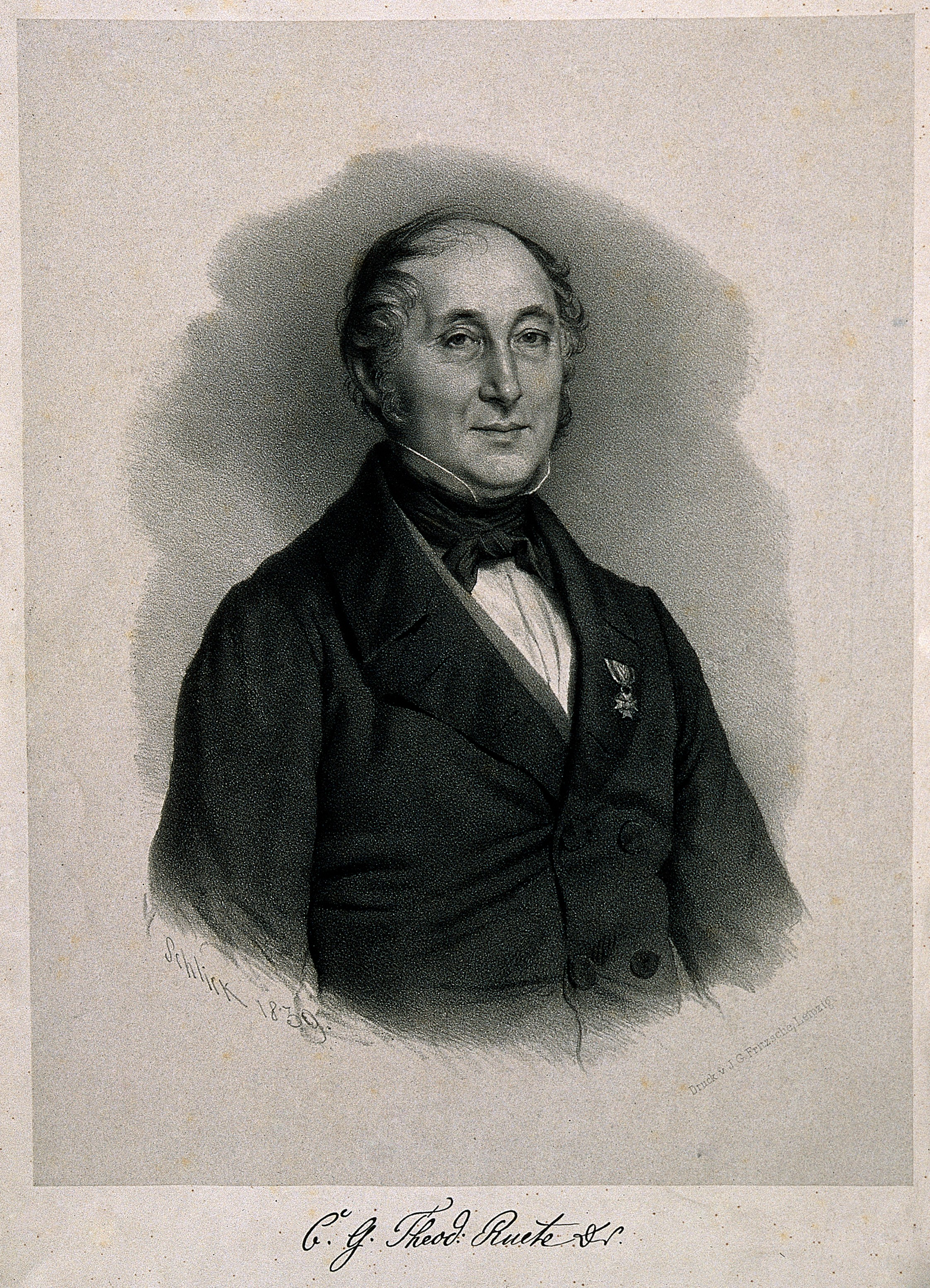 Genre/Technique: Portrait prints. Lithographs. Subject name: Reute, Christian Georg Theodor, 1810-1867.